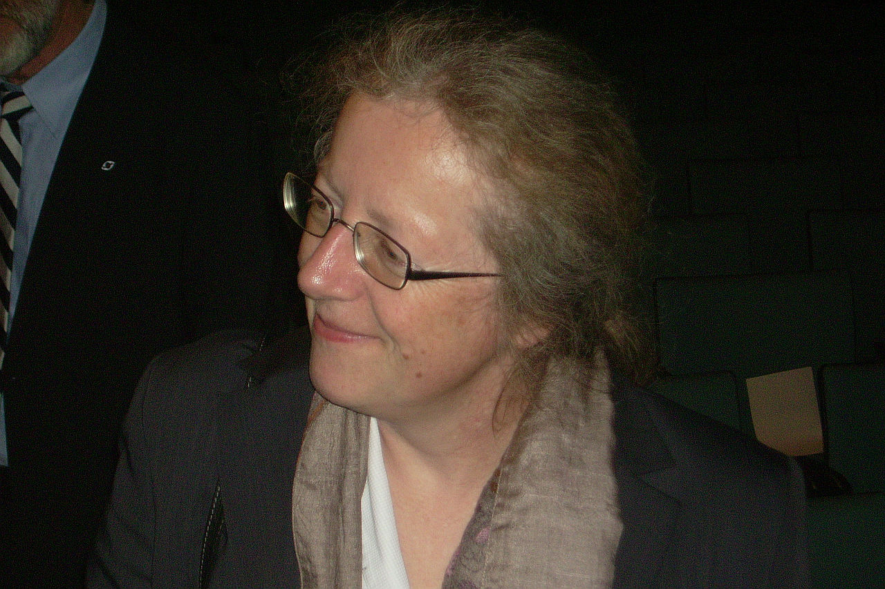 Katharina Krause, german professor for history of arts, president of Philipps-Universität Marburg